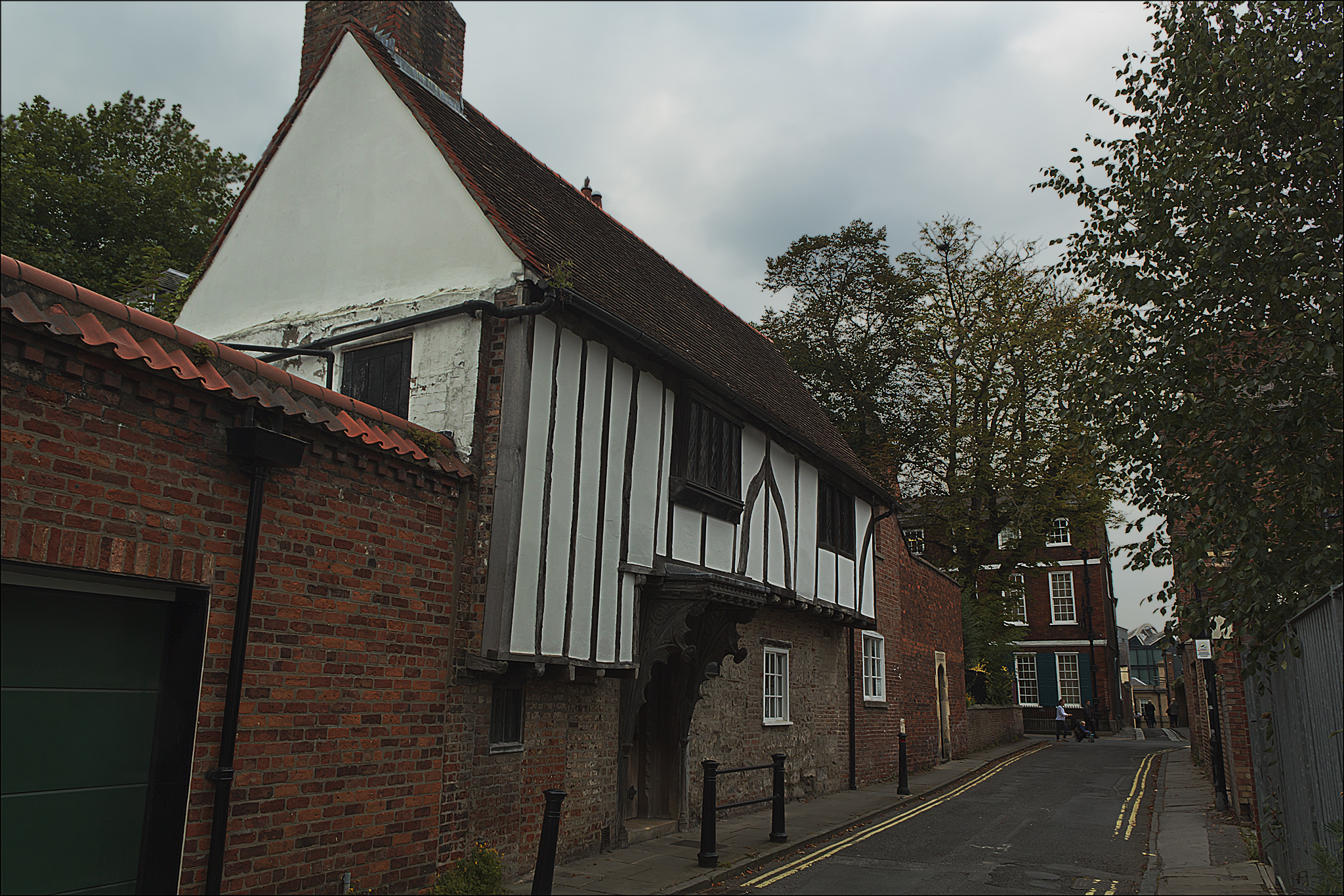 The parish rooms of Holy Trinity Church, Micklegate. This was originally a medieval private house, then an alms house, then an inn. In the early 19th century, the then owner added a third story to increase the number of rooms in the inn. The weight of this third story put a lot of strain on the timber frame of the original two-storey building. When the church bought the building in the early 20th century, the third storey was removed and the original structure restored at great expense.